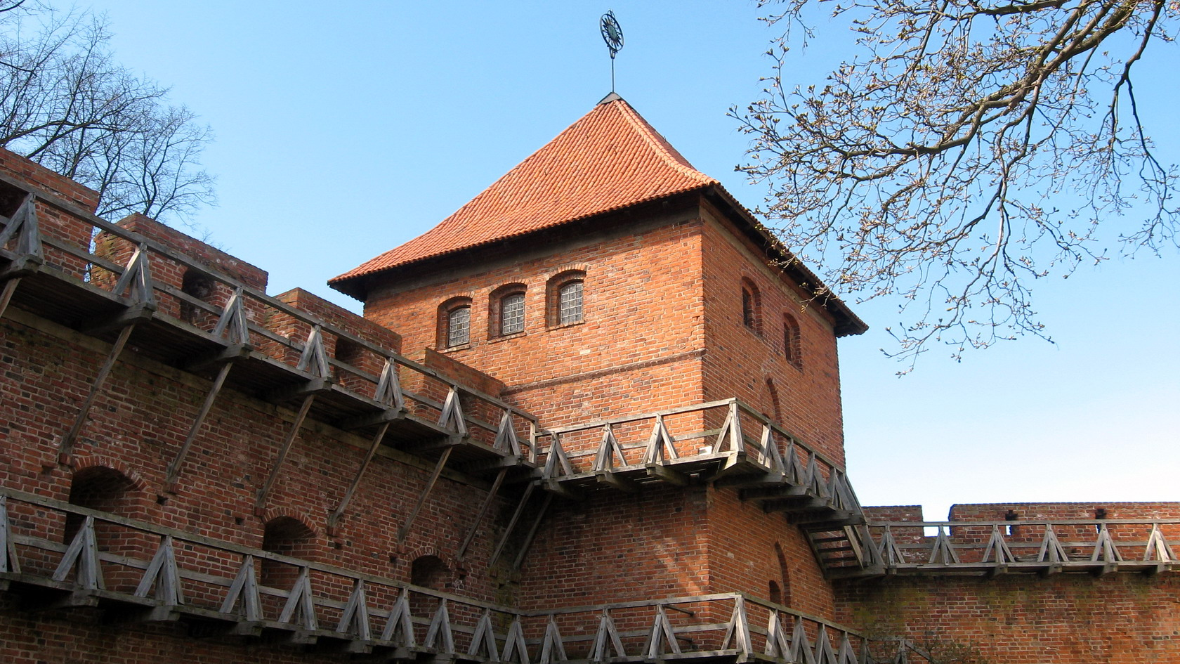 Copernicus' tower